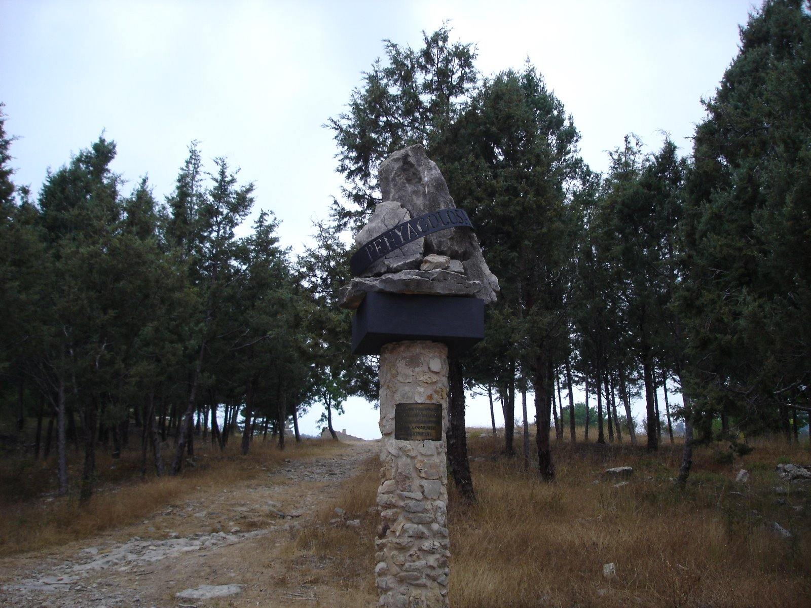 Penyagolosa sculpture near San Joan de Penyagolosa.